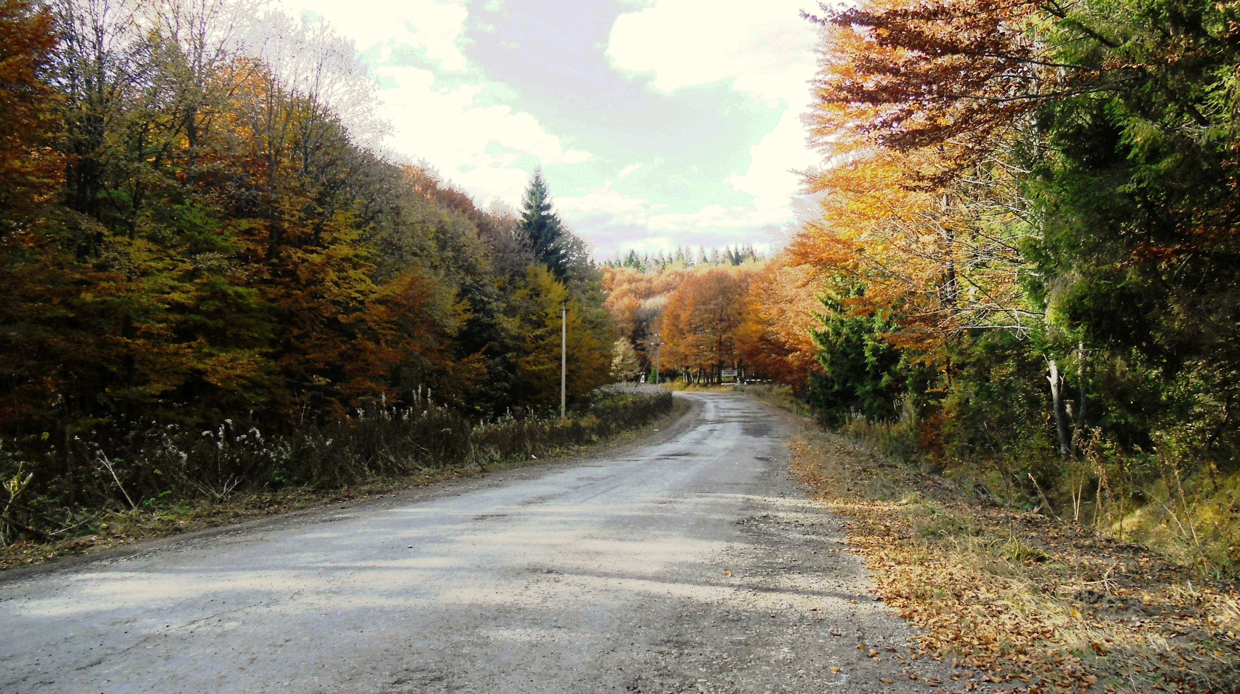 Carpathians of Lviv region. Skole district. Ukraine. Mountain road at the entrance to the village of Klymets.